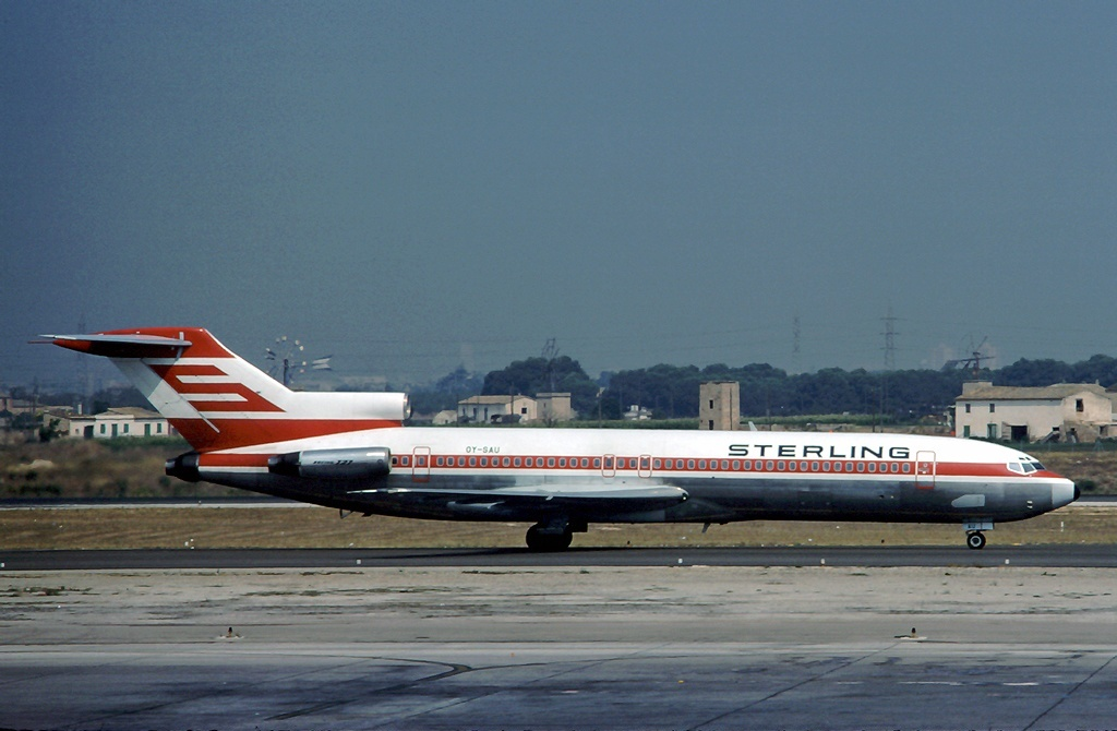 Sterling Boeing 727-214-Adv OY-SAU at Palma de Mallorca Airport